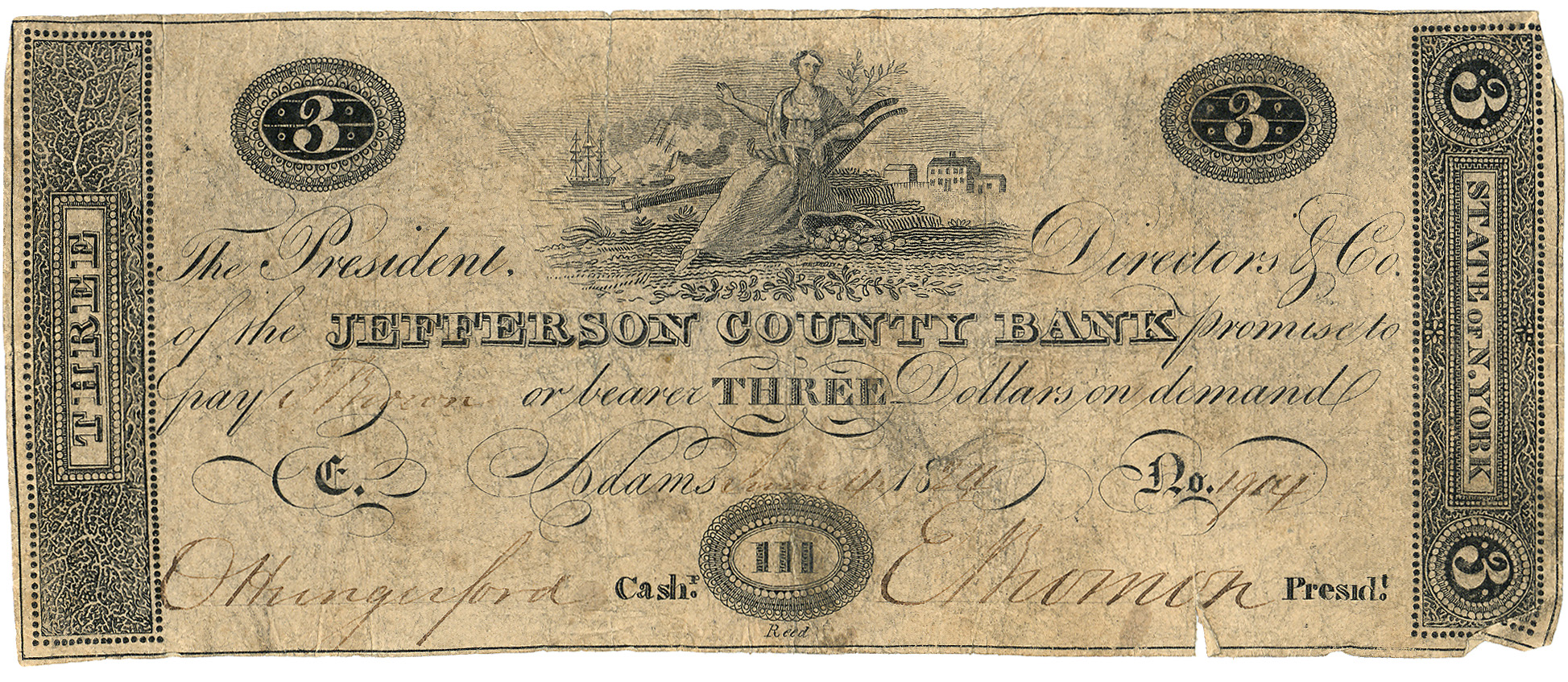 3-dollar bank note issued by the Jefferson County Bank, Adams, New York, signed by bank cashier, Orville Hungerford, and bank president, Ethel Bronson.